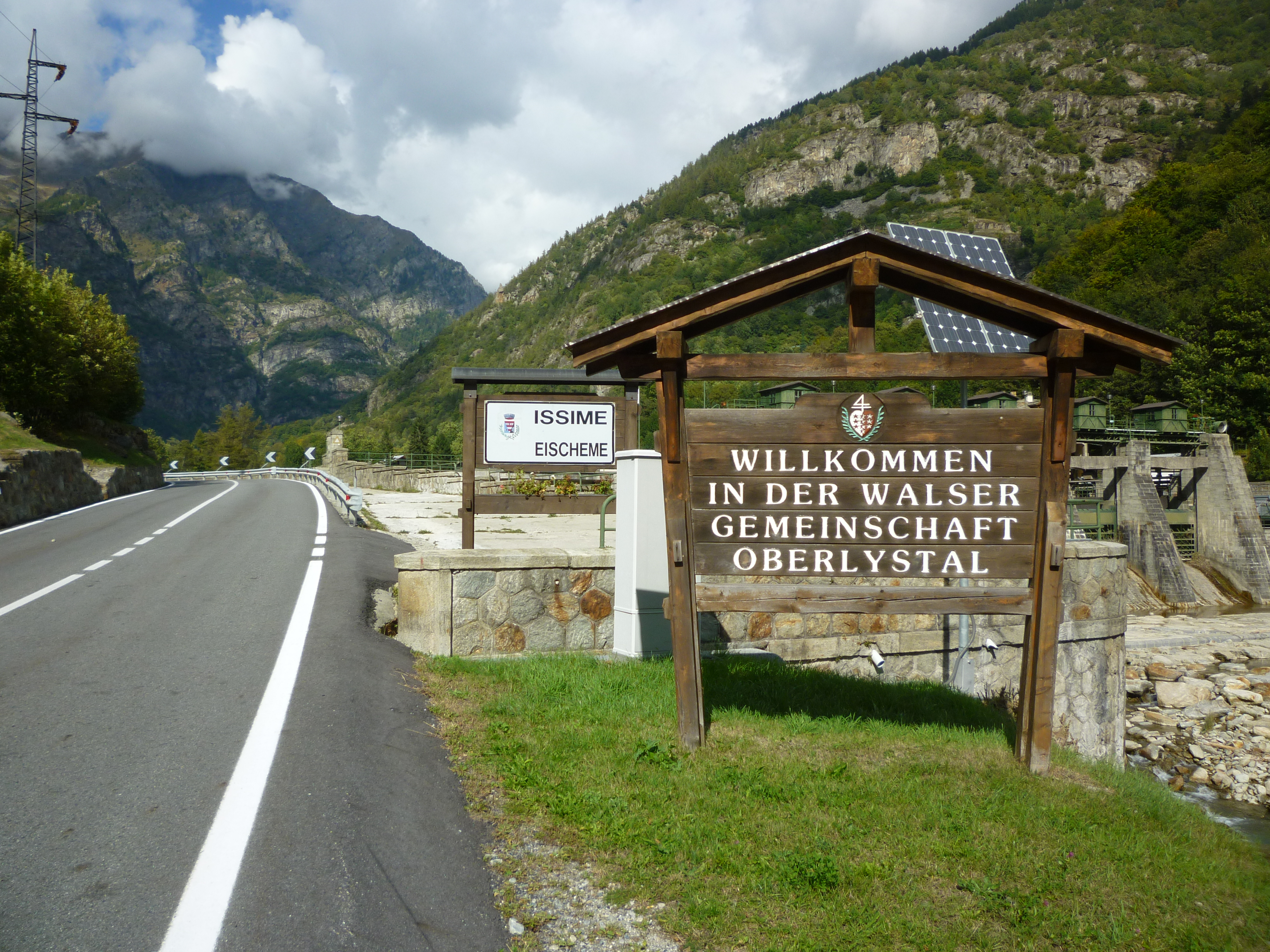 Entrance of Walsergemeinschaft Oberlystal in Aosta Valley (Italy)